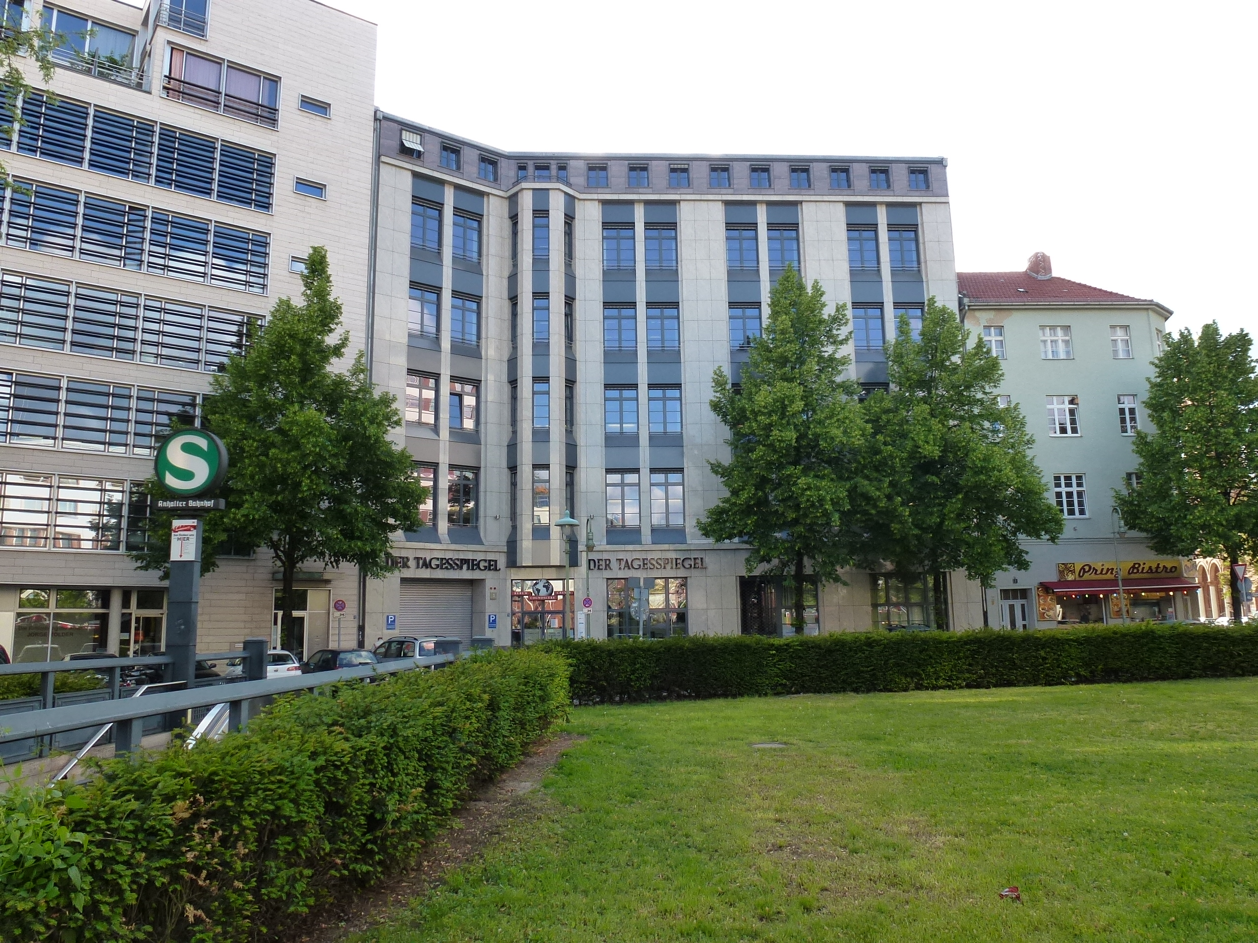 Berlin-Kreuzberg Askanischer Platz Tagesspiegel-Gebäude